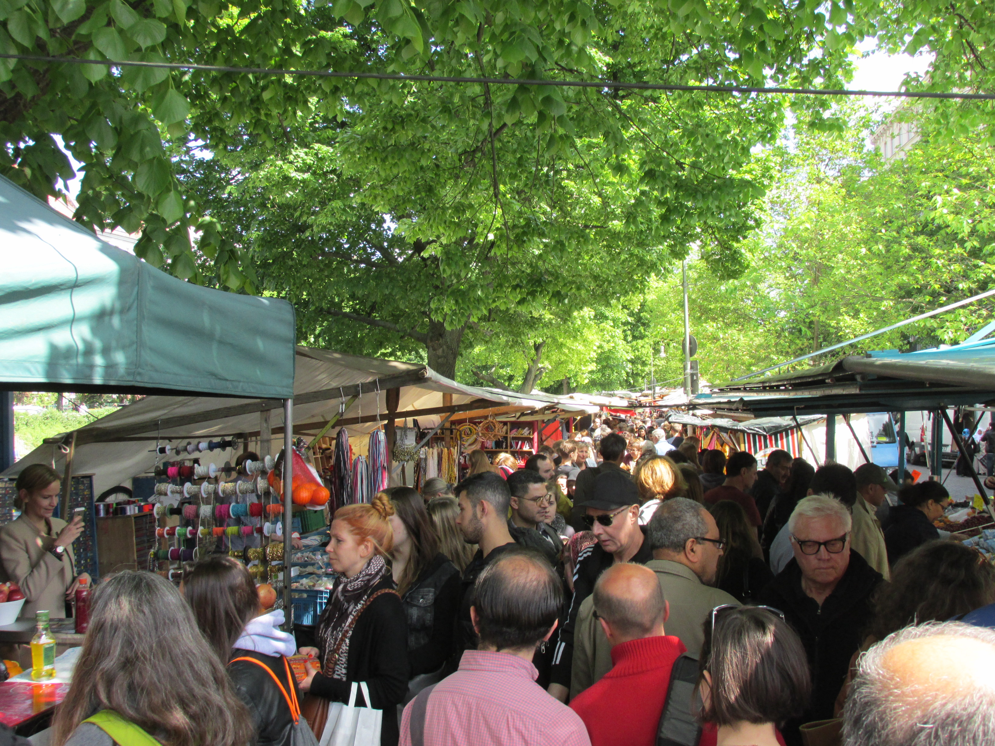 The Friday Turkish market in Maybachufer (near Kottbusser Damm), Berlin.